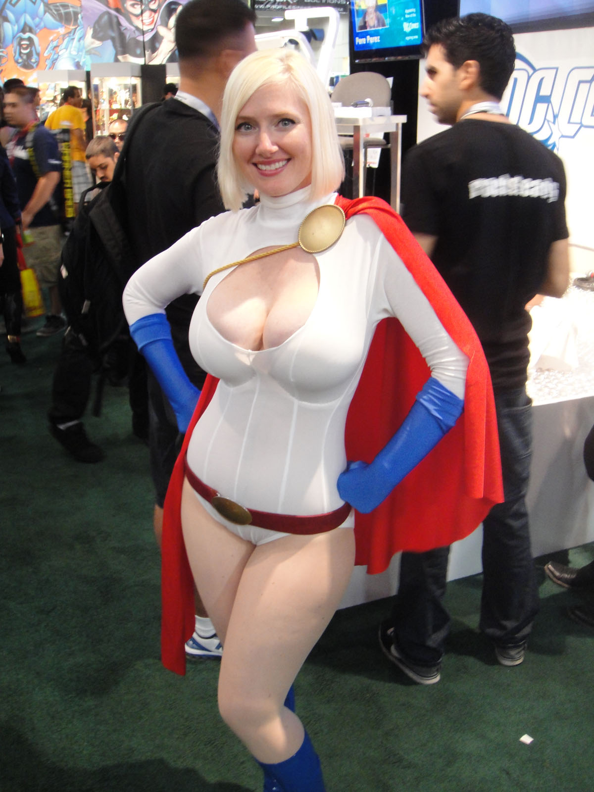 The cosplayer "Vegas PG" cosplaying as Power Girl (from DC Comics) at San Diego Comic-Con 2011.